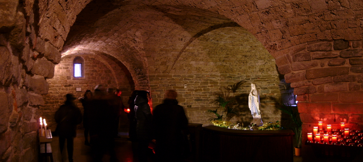 The crypt of the church of Santa Maria Assunta, San Leo, province of Rimini, Emilia-Romagna